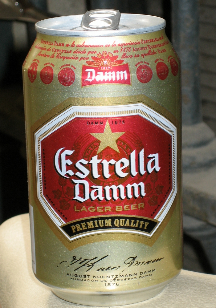 Estrella Damm, a "damm" good Spanish beer